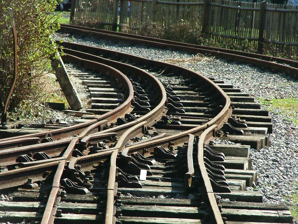 An arrangement of rails which allows trains of differerent gauges to run on the same line. Taken at Amberley Working Museum, England.Narrow and narrower gauge track.